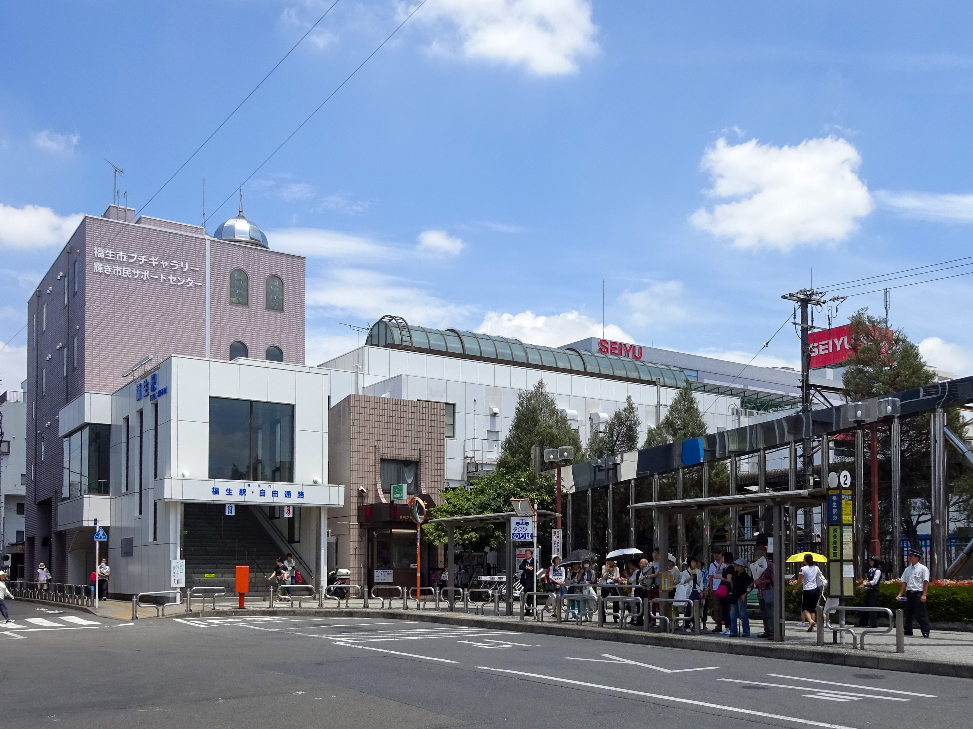 The west entrance to Fussa Station in Tokyo, Japan